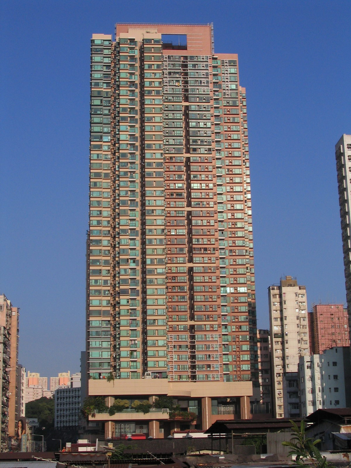 窩打老道8號 8 Waterloo Road